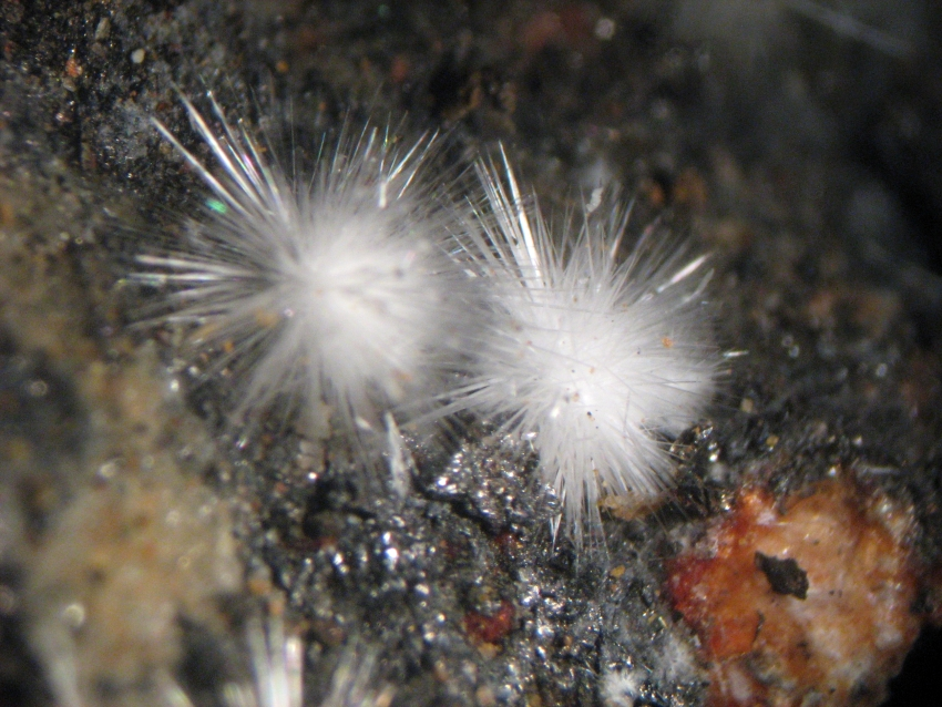 Locality: Brosso Mine, Cálea, Léssolo, Canavese District, Torino Province, Piedmont, Italy Group of acicular crystals of canavesite, 8 mm field photography and collection Edoardo Mazzola